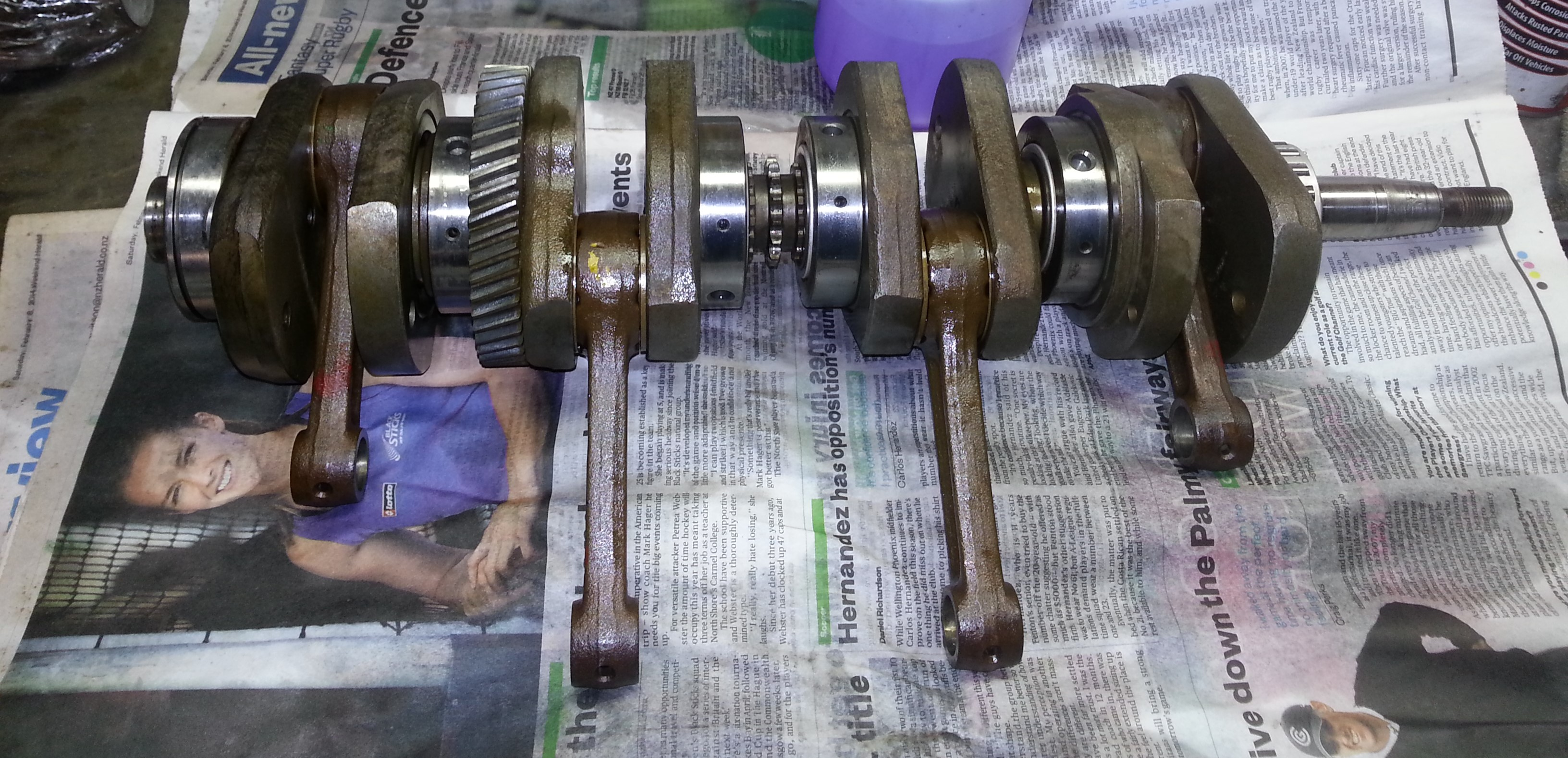 photo of built up roller crankshaft